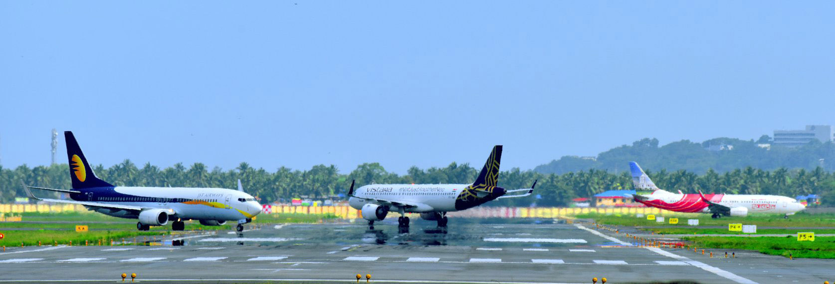 Aircrafts at Trivandrum International Airport at Truvandrum, the Capital city of Kerala, India.